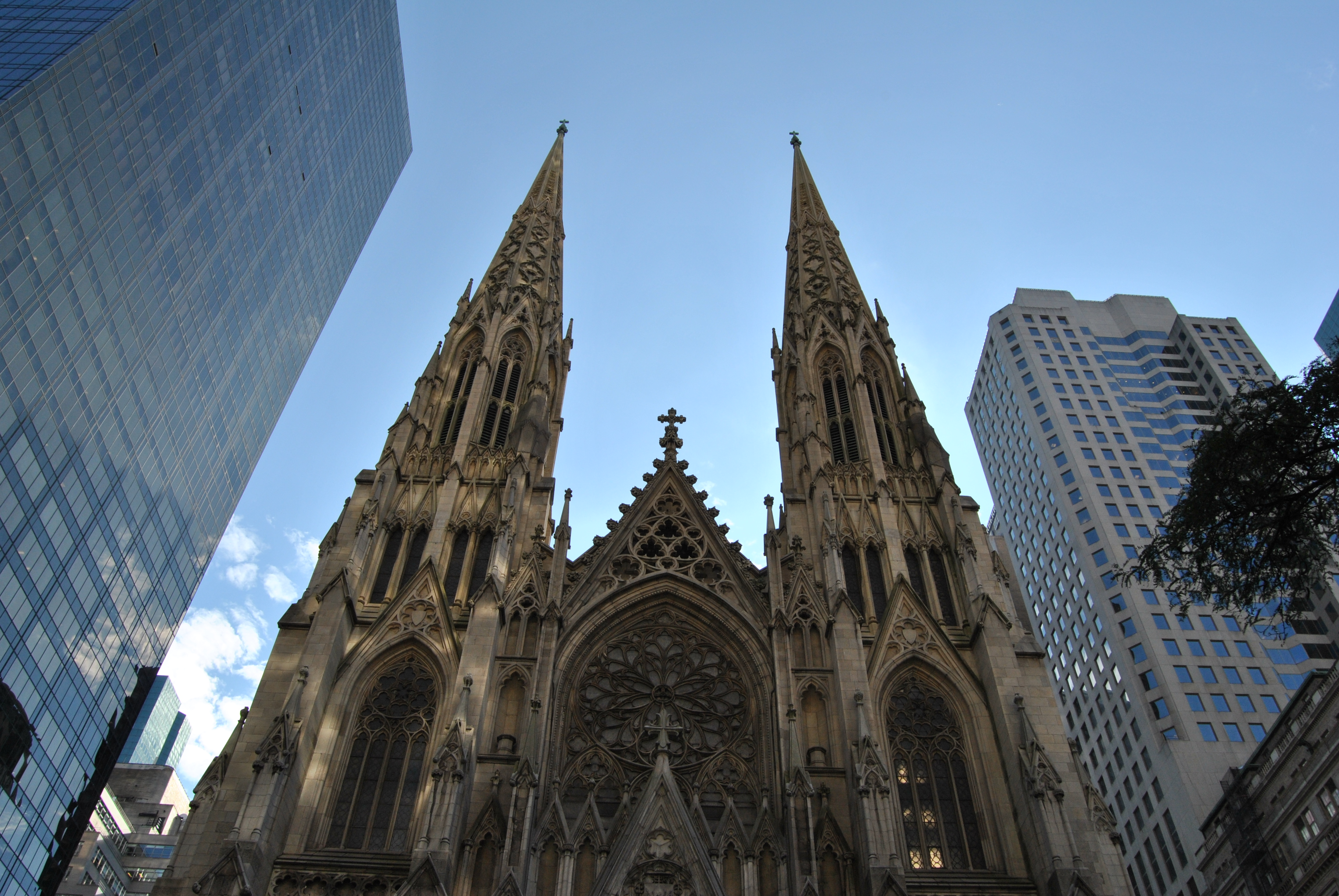 Saint Patricks Cathedral in New York - NYC - USA